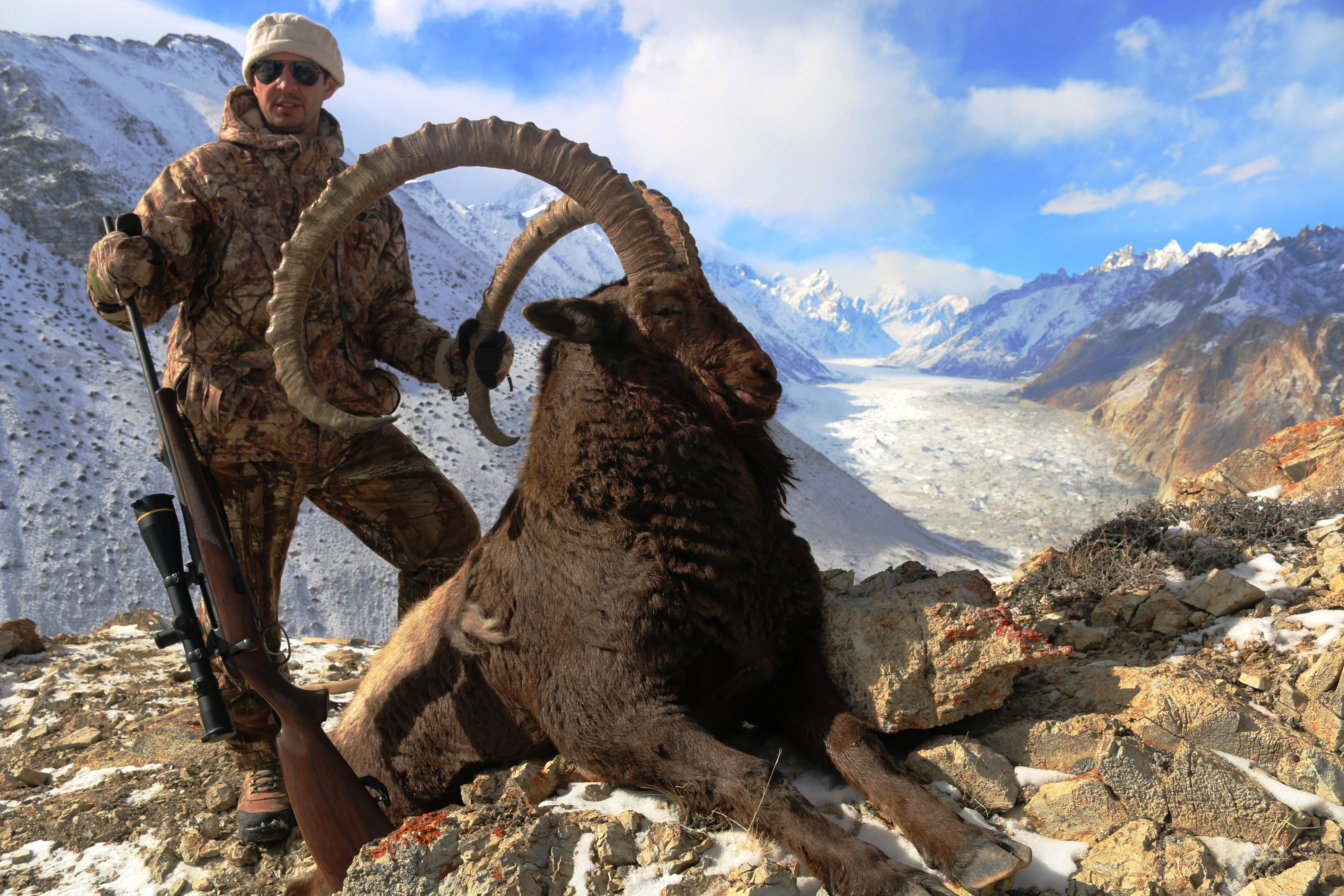 "M. Hesham Usama Khan from Lahore has harvested a Word Record 53 inches Ibex trophy in Passu Hunza (Younz Valley near Batura Glacier) a 3464.5 meters altitude. The shot was taken at aprox. 800 yards with 7mm Magnum Rifle using 162 grain soft nose bullet on 2016-01-01"